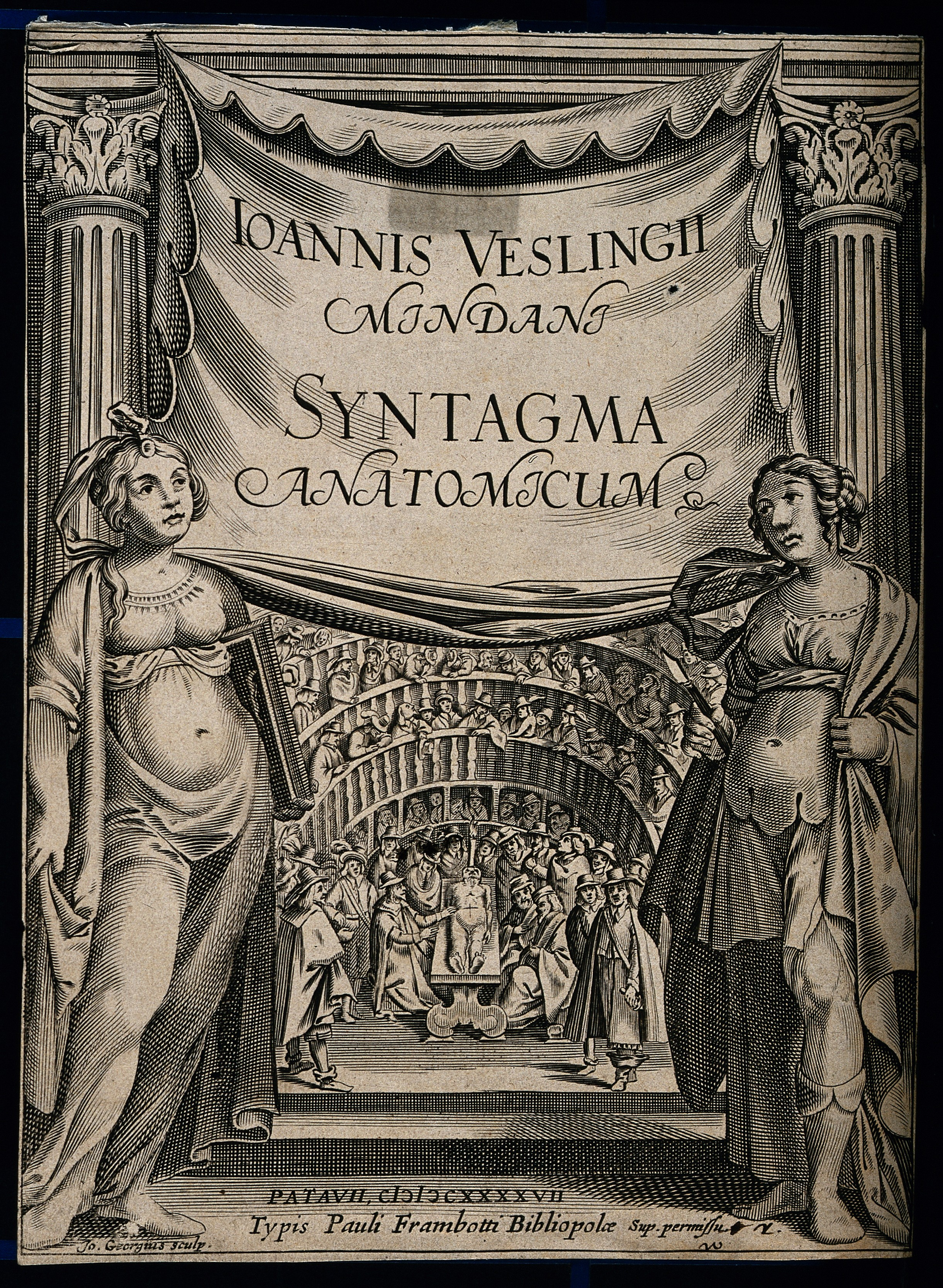 Two female figures standing on either side of drapery bearing the title of Vesling's Syntagma anatomicum: beyond, the anatomy theatre of the University of Padua. Engraving by Giovanni Giorgio, 1647. Iconographic Collections Keywords: Johann Vesling; Giovanni Giorgio